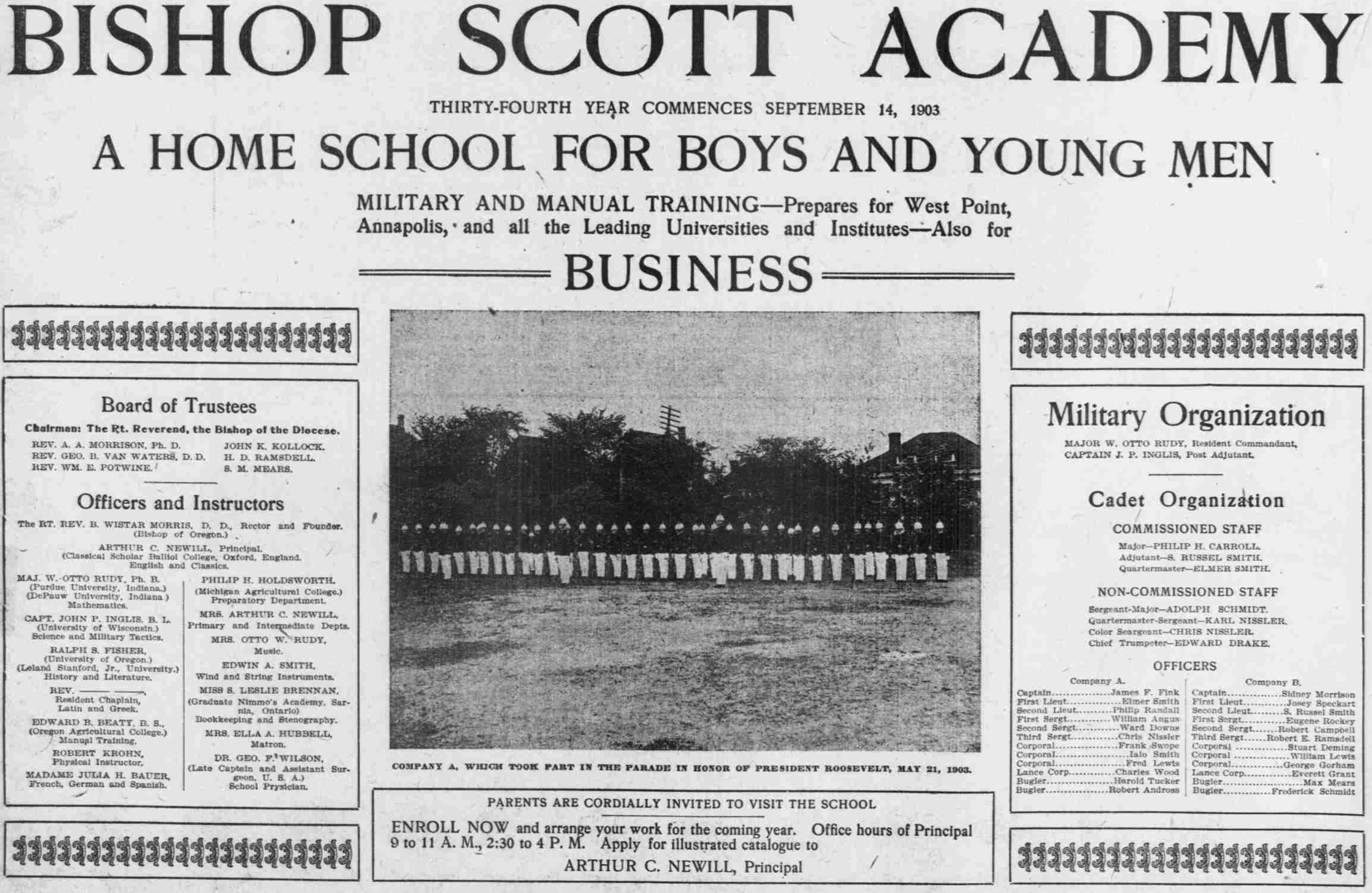 Advertisement for the Bishop Scott Academy (1903) of Portland, OR, containing lists of trustees, faculty, and military organization.